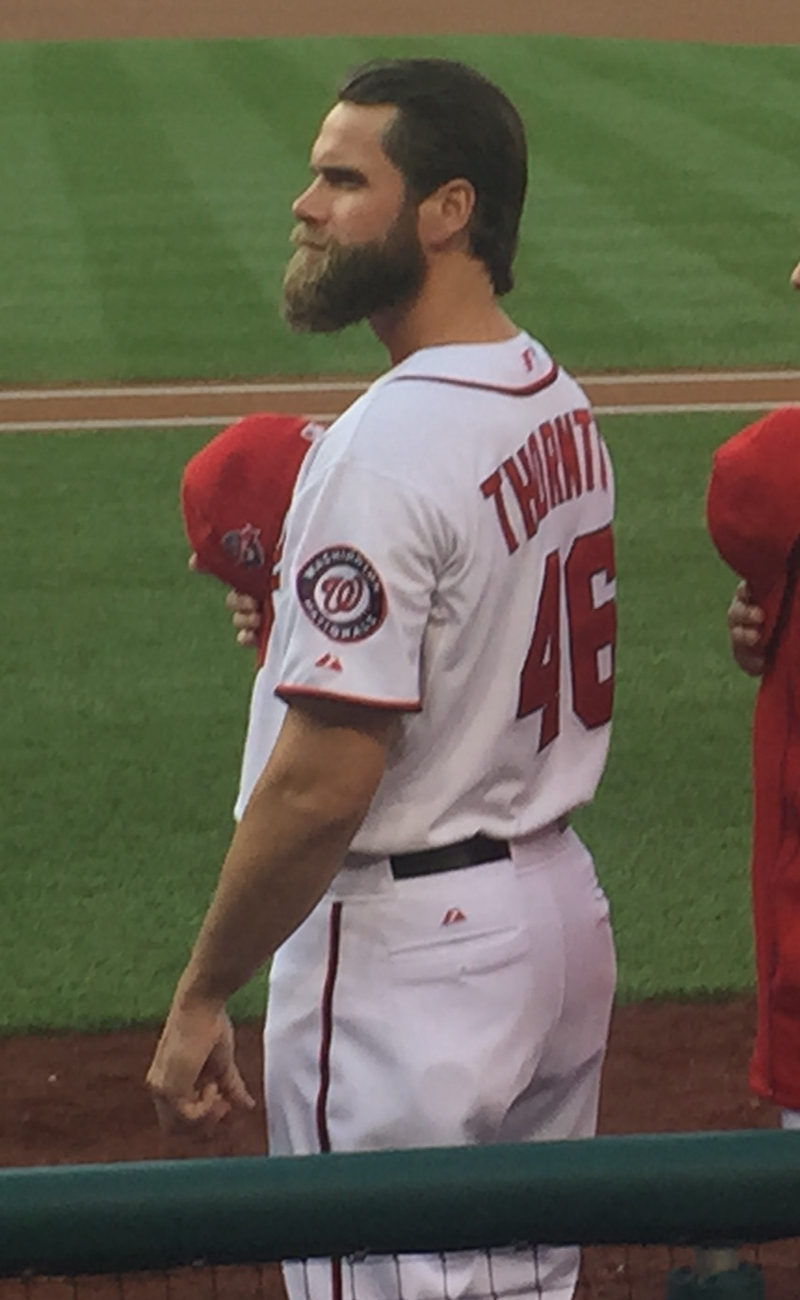 Matt Thornton